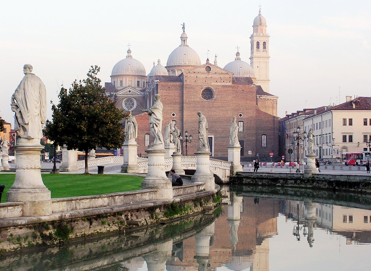 Padova, Veneto, Italia